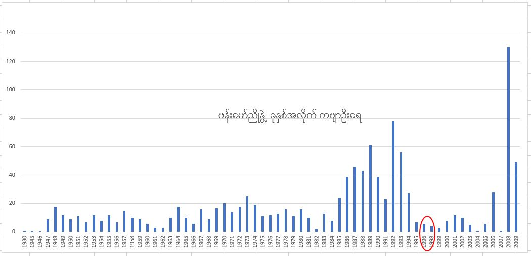 မြန်မာဘာသာ: Yearly Poem Count of Bhamo Nyonwe